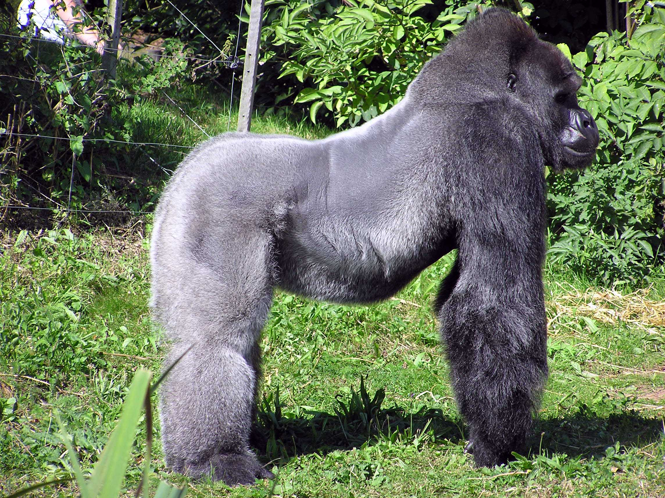 Jock (male) a Western Lowland Gorilla Gorilla gorilla gorilla at Gorilla Island, Bristol Zoo, Bristol, England. Diet in the wild: fruit, seeds, leaves, stems, bark, insects. Weight in the wild: Male up to 169kg. Female up to 75kg. From: West Africa (Nigeria, Cameroon, Gabon, Equatorial Guinea, SW Central African Republic).